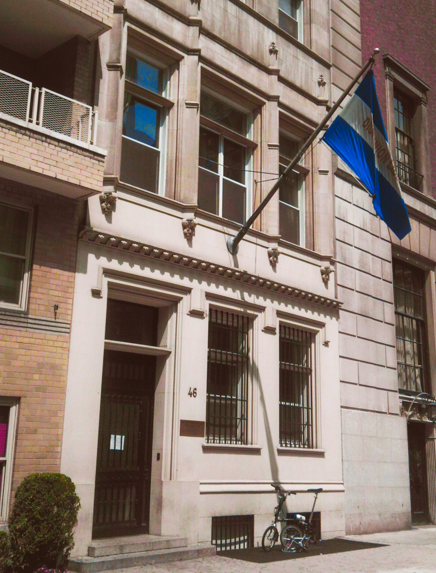 Looking north at Consulate of El Salvador, 46 Park Avenue, on a sunny midday. EXIF location is off by 25 m due to photographer's error.